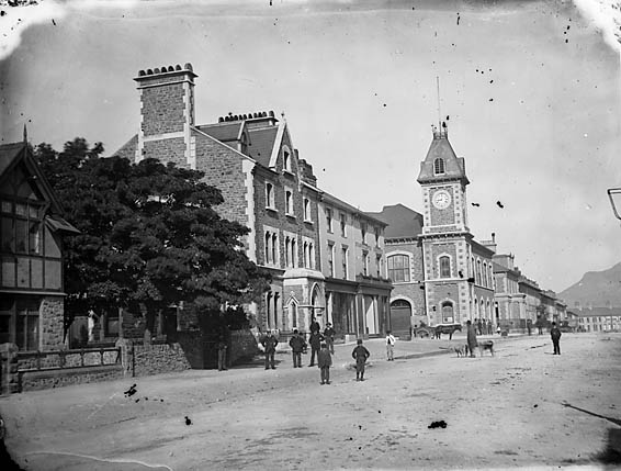 1 negative : glass, wet collodion, b&w ; 12 x 16.5 cm.